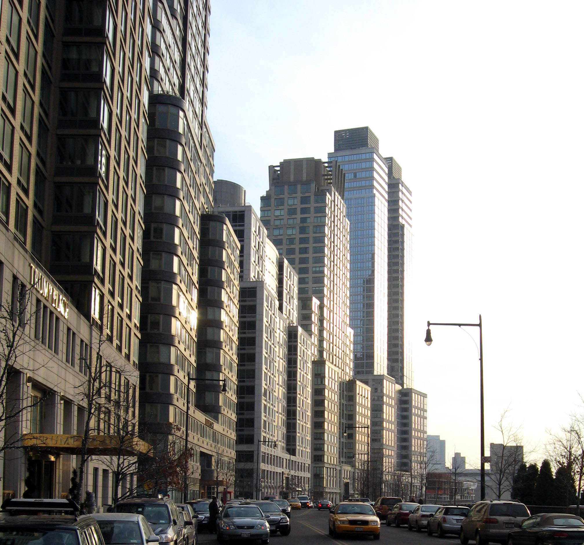 Looking south along Riverside Boulevard at buildings of Trump Place on a partly cloudy afternoon.